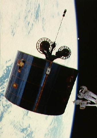 Astronaut James van Hoften works on the Syncom IV-3 satellite on STS-51-I. Astronaut James D. van Hoften gives a shove to the previously troubled Syncom IV-3 communications satellite. Dr. van Hoften stands on a foot restraint/extension to the remote manipulator system (RMS) arm.